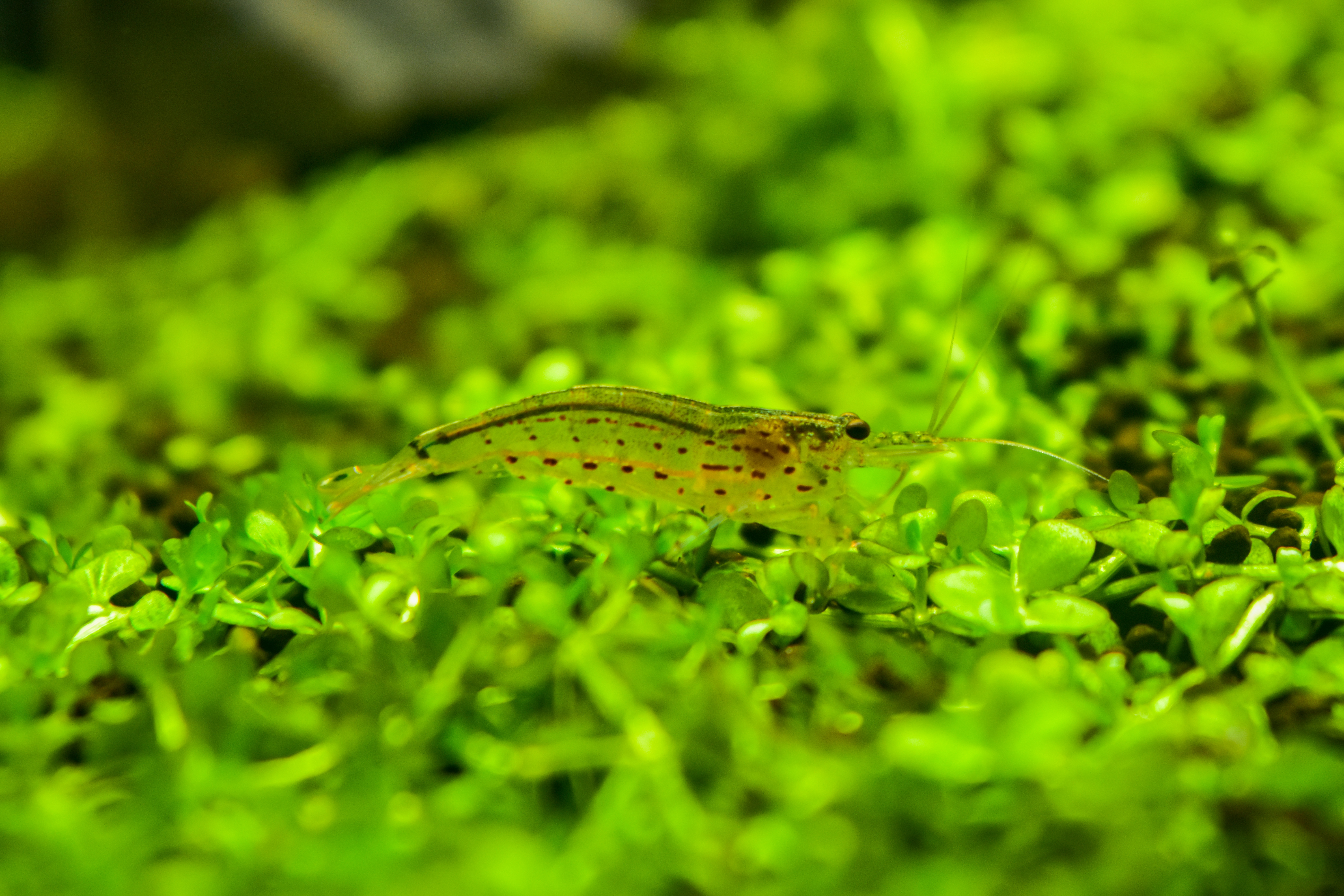 Caridina multidentata also known as Amano Shrimp busy feeding on plant remains